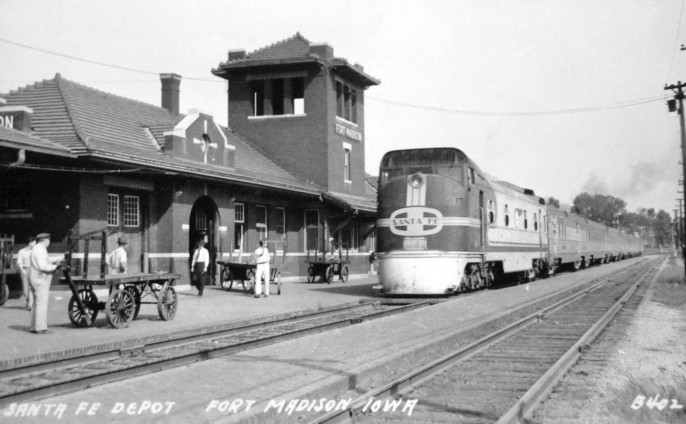 Postcard photo of Santa Fe's number one engine after it was rebuilt post-1937. The railroad started rebuilding these locomotives at that time because of the advent of Electro-Motive's EMC E1 diesels. The locomotives originally looked like this File:ATSF1 1935.JPG, and were changed to more closely resemble the E1s. The passenger locomotive, which may be either the Super Chief or The Chief, is at the Fort Madison, Iowa, depot. Fort Madison was one of the stops for the Santa Fe between Chicago and California.